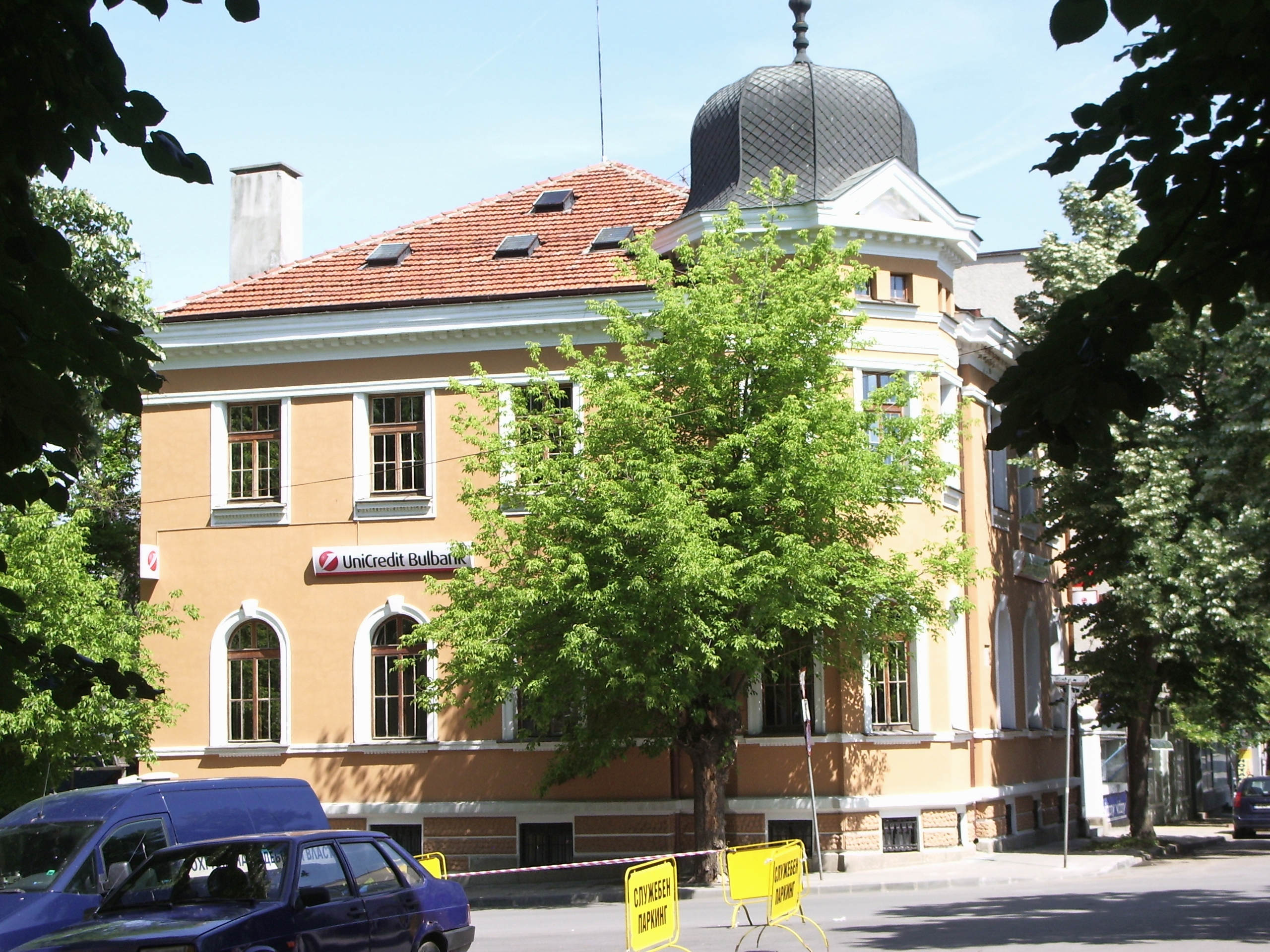 Yambol, Bulgaria - Old building on "George Papazov" str. / "Alexander Stamboliiski" str.